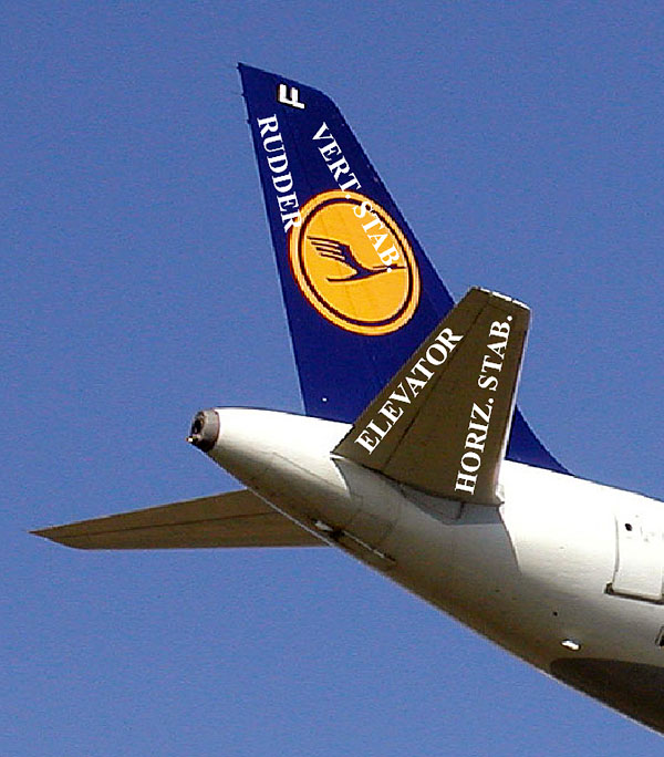 The tail of a Lufthansa Airbus A319 photographed in flight at London (Heathrow) Airport. The vocabulary describing the tail is highlighted.